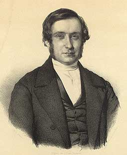 Dutch writer Johannes Petrus Hasebroek (1812 - 1896)